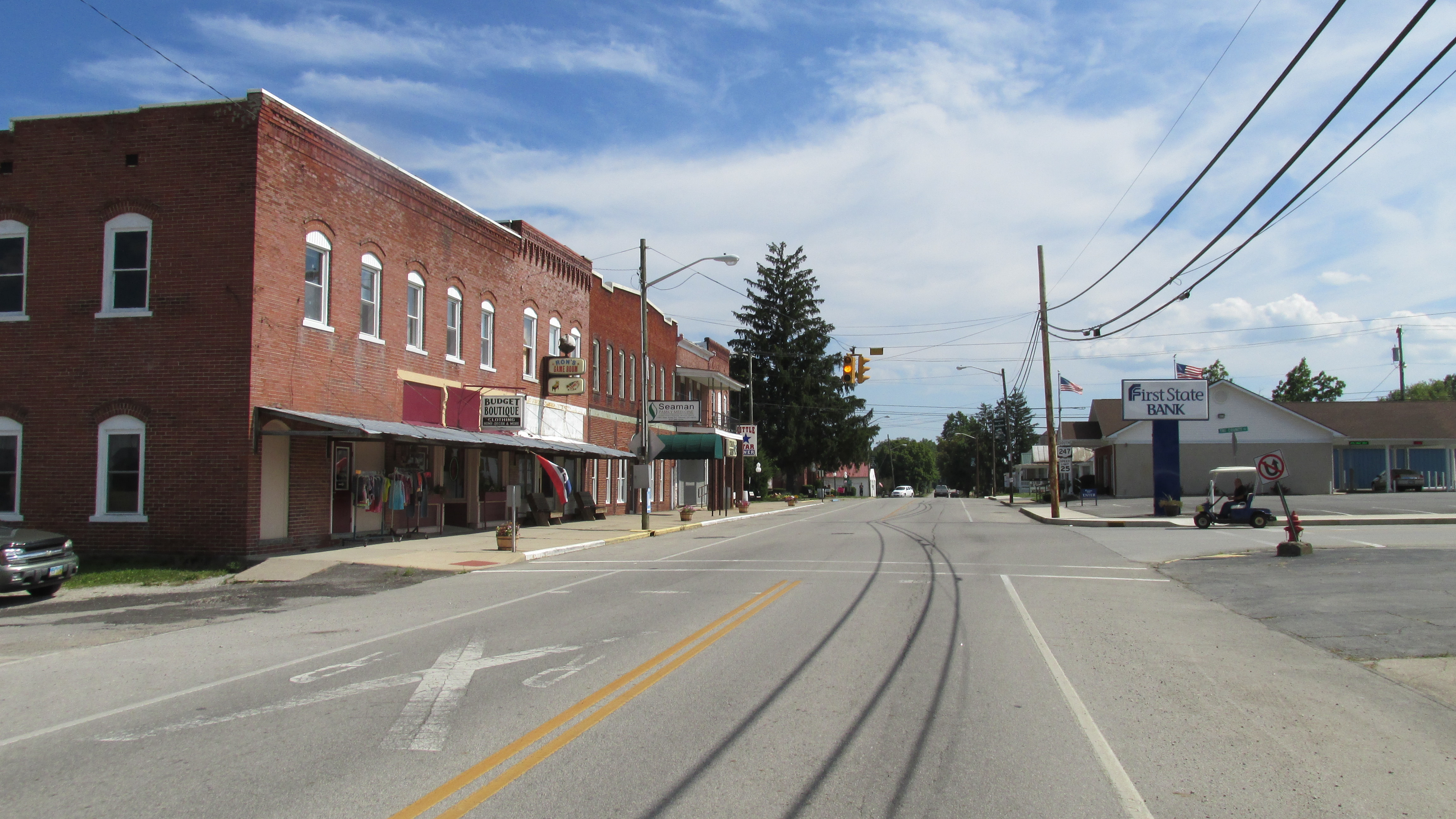 Looking south on Main Street (Ohio Highway 247) in Seaman, Ohio.